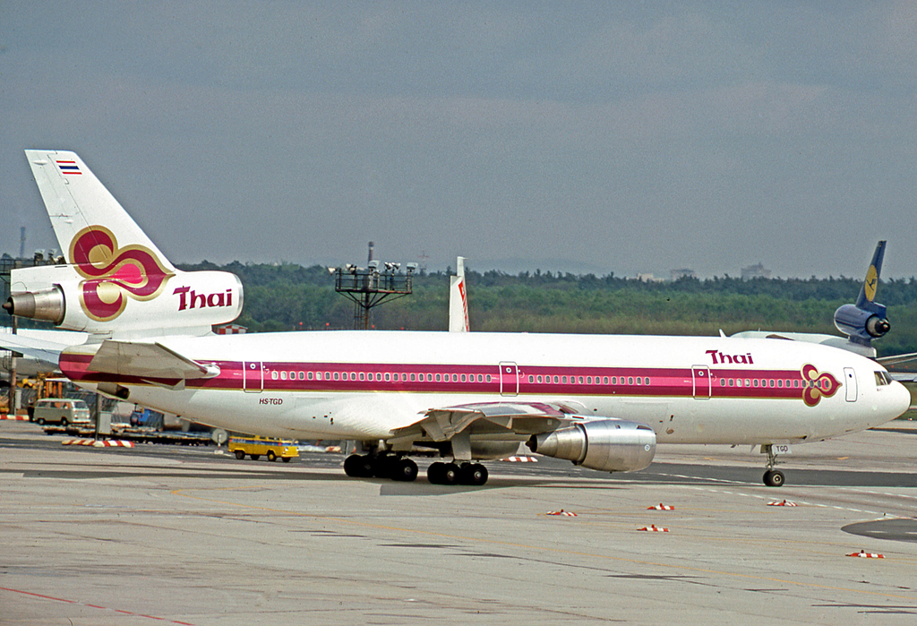 Douglas DC-10-30 HS-TGD of Thai Airways at Frankfurt Airport in 1977